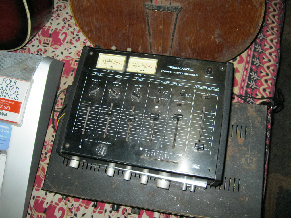 Realistic stereo mixing console Flickr Tags: guitar sound music teach teacher acoustic steel string belgaum city food india canon a3000is pointandshoot. from Flickr album "sir theo by julian correa from Belgaum Cantonment, India